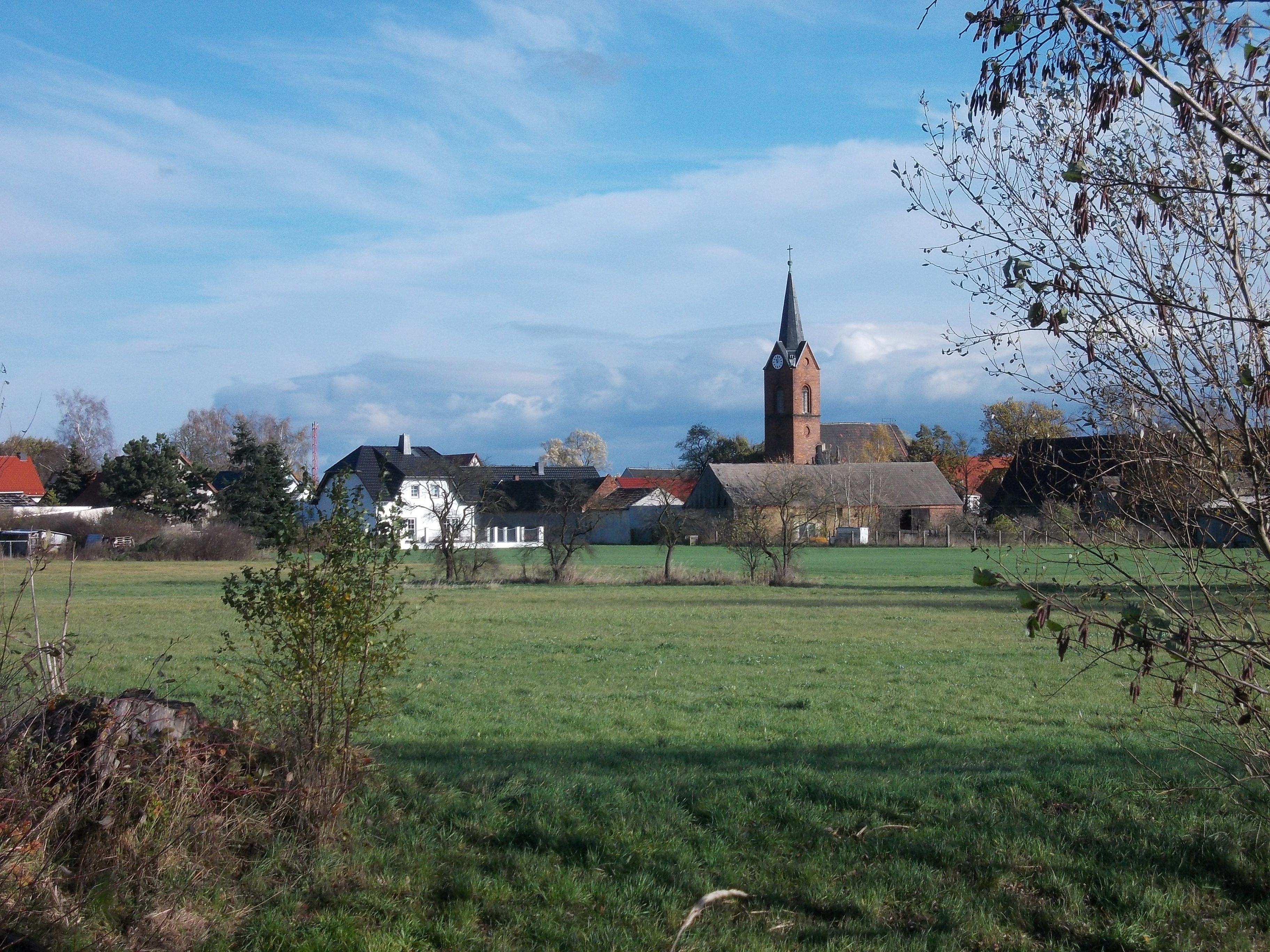 View of the village of Görschlitz (Laussig, Nordsachsen district, Saxony)